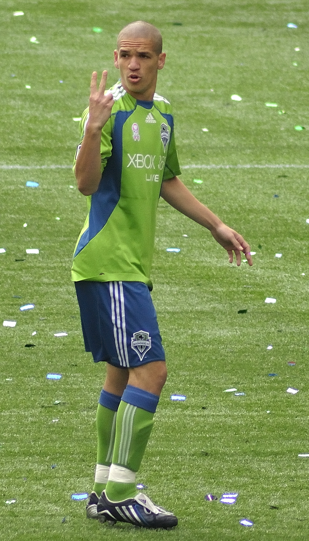 Osvaldo Alonso, playing for Seattle Sounders FC.